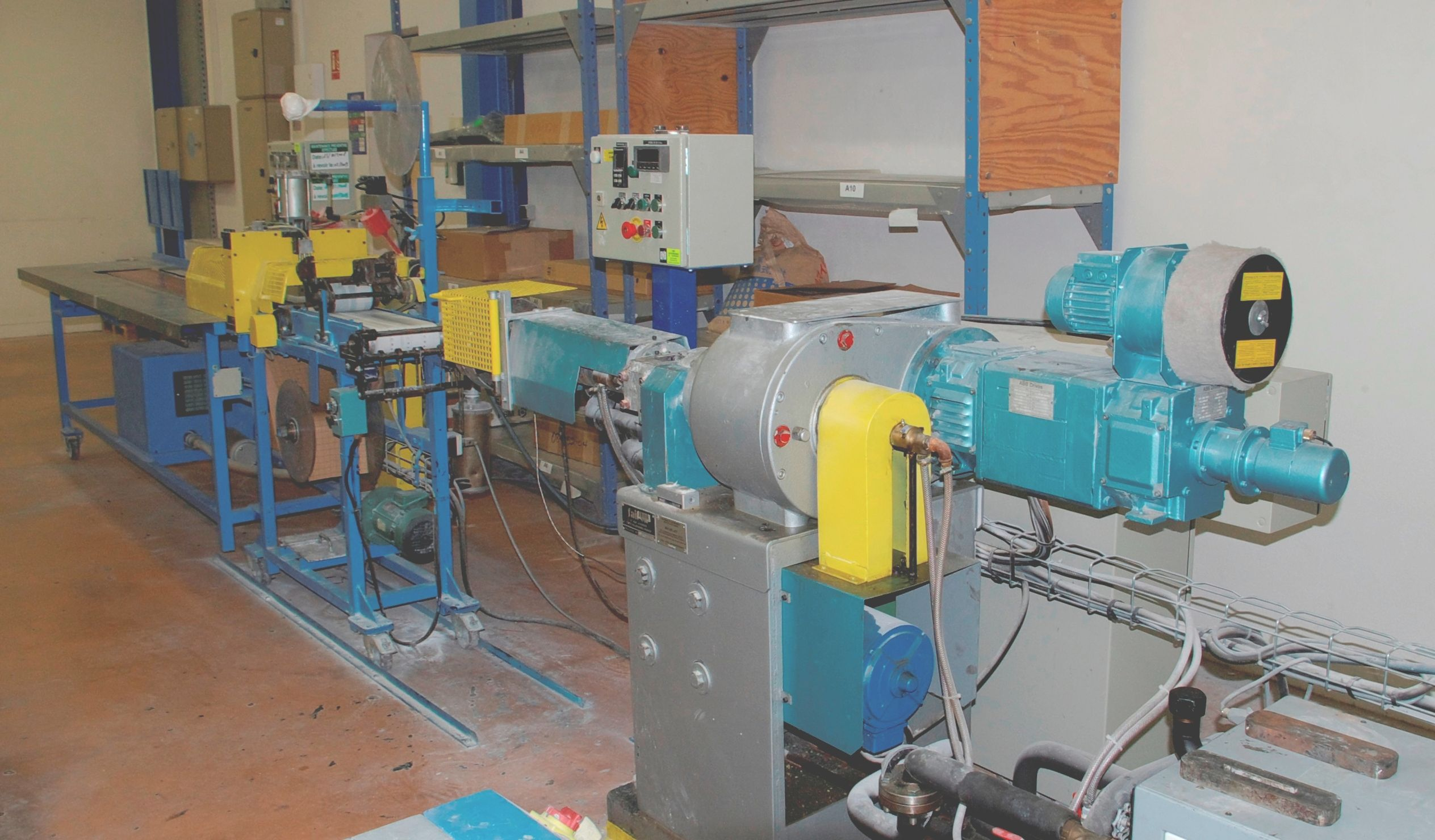 Plastic extruder. Two dies are visible right foreground.